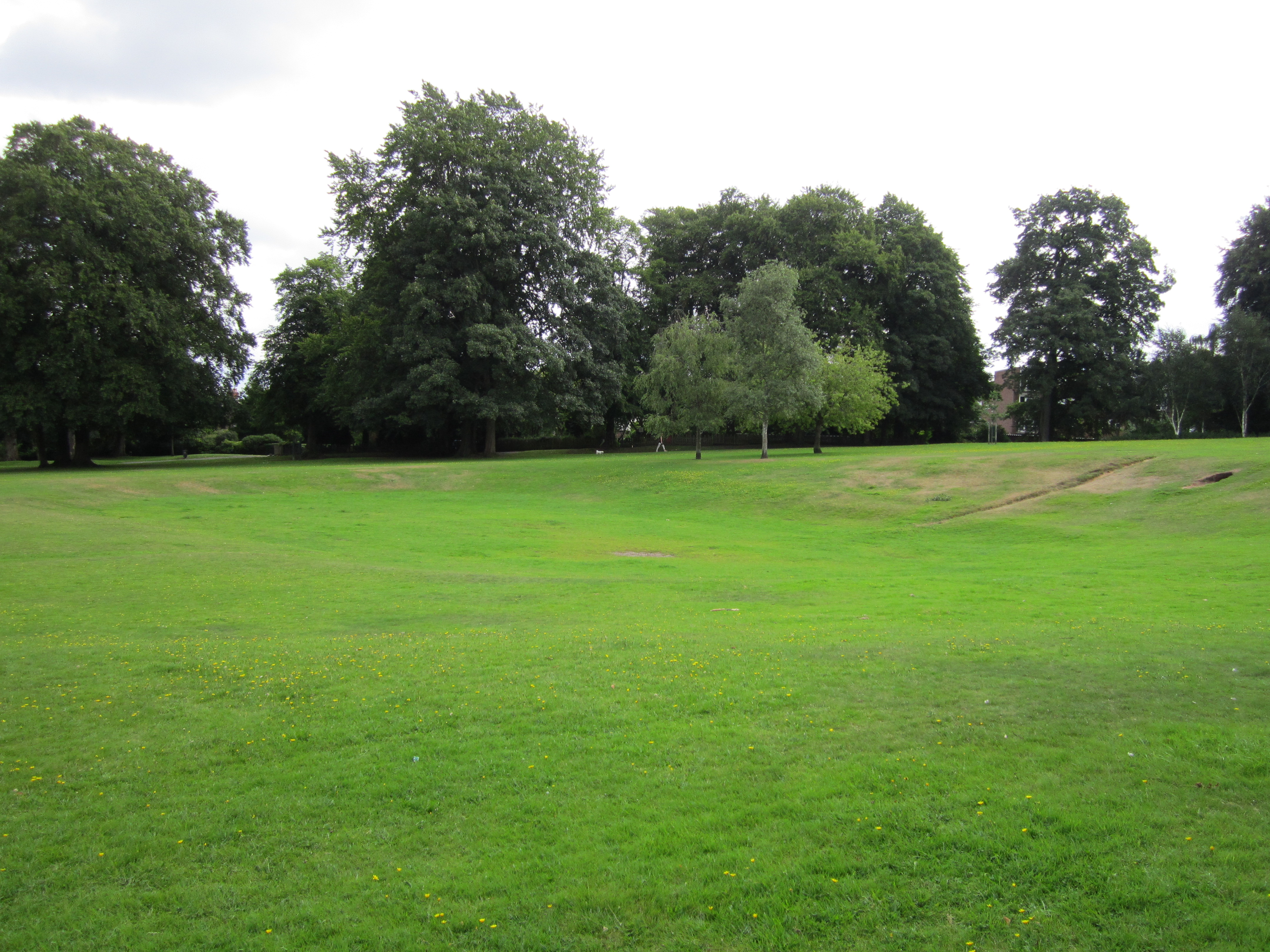 Photo taken at John Leigh Park, Altrincham, Greater Manchester, England.